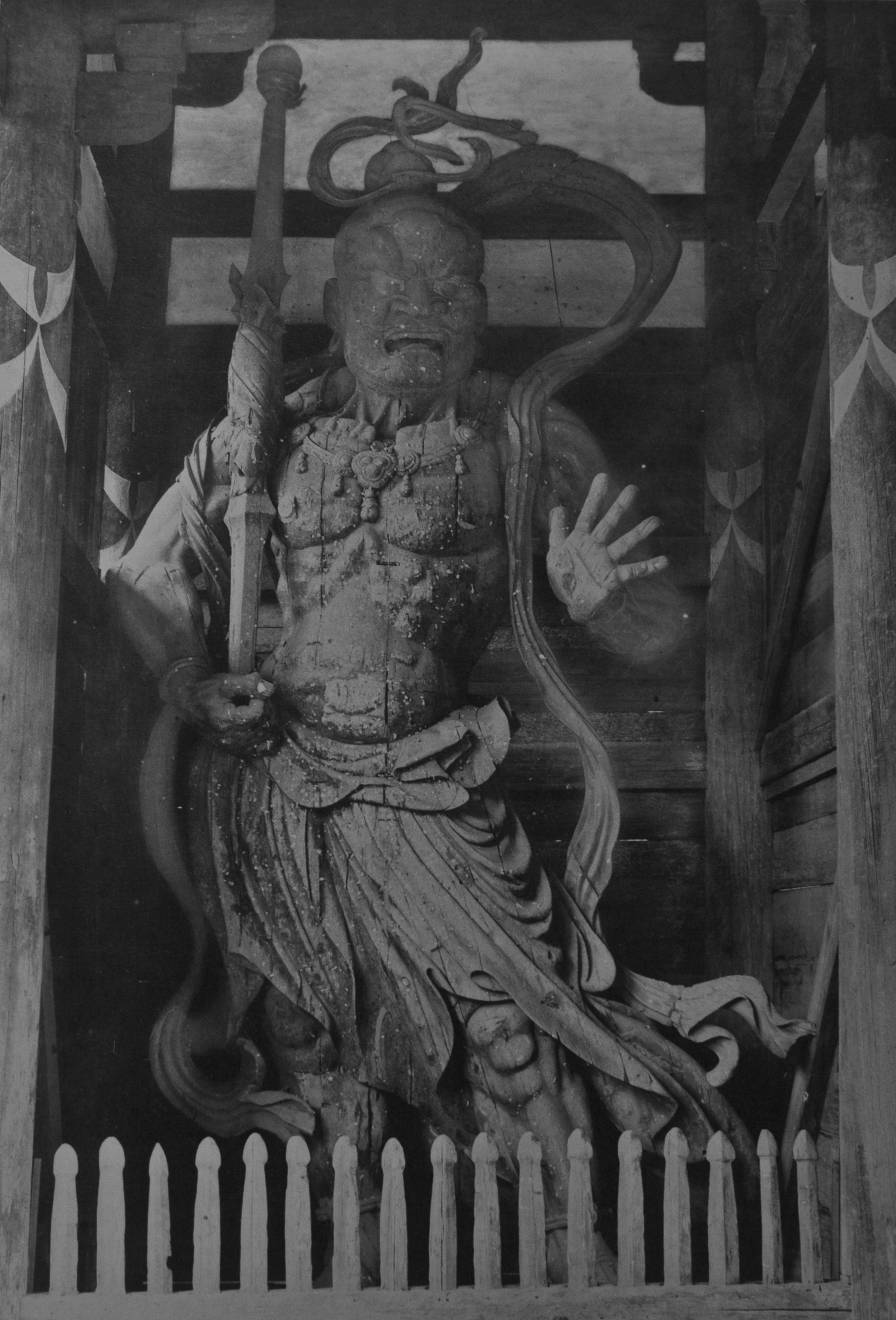 Todaiji, Nara, Japan